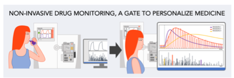 Non-invasive drug monitoring using SESI